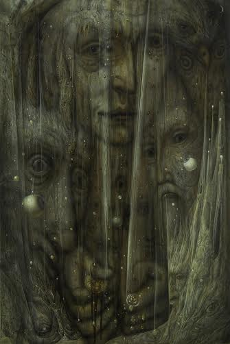 Rinat Baibekov- 'Coin and Cup'